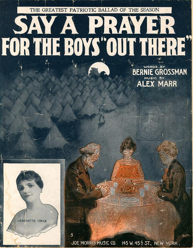 sheet music cover version with inset photo of jeanette yonge